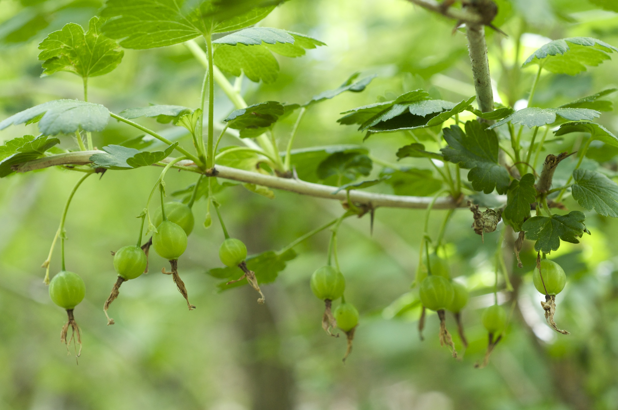 Species from north-central North America Arkansas is at the southern limit of this species' range. Common name: Missouri Gooseberry Photographed along the Van Winkle Hollow, Hobbs State Park / Conservation Management Area, northwestern Arkansas